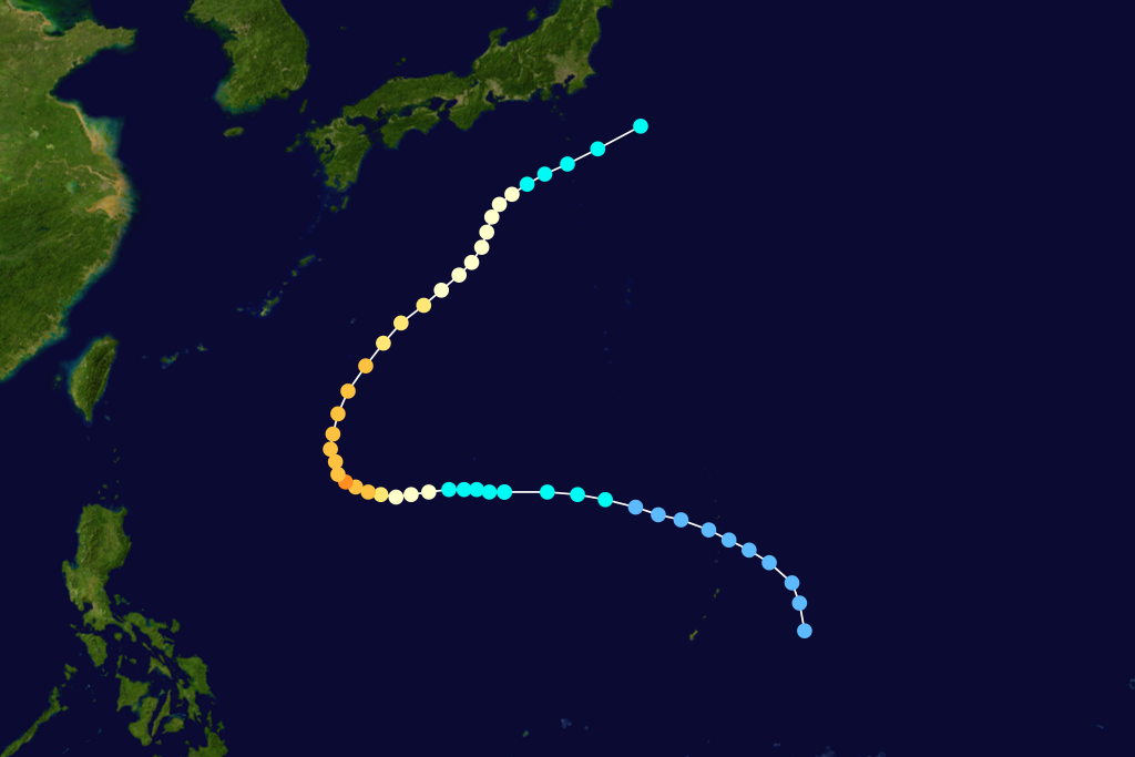 Typhoon Orchid 1991 track. Uses the color scheme from the Saffir-Simpson Hurricane Scale.